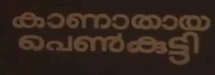 Title